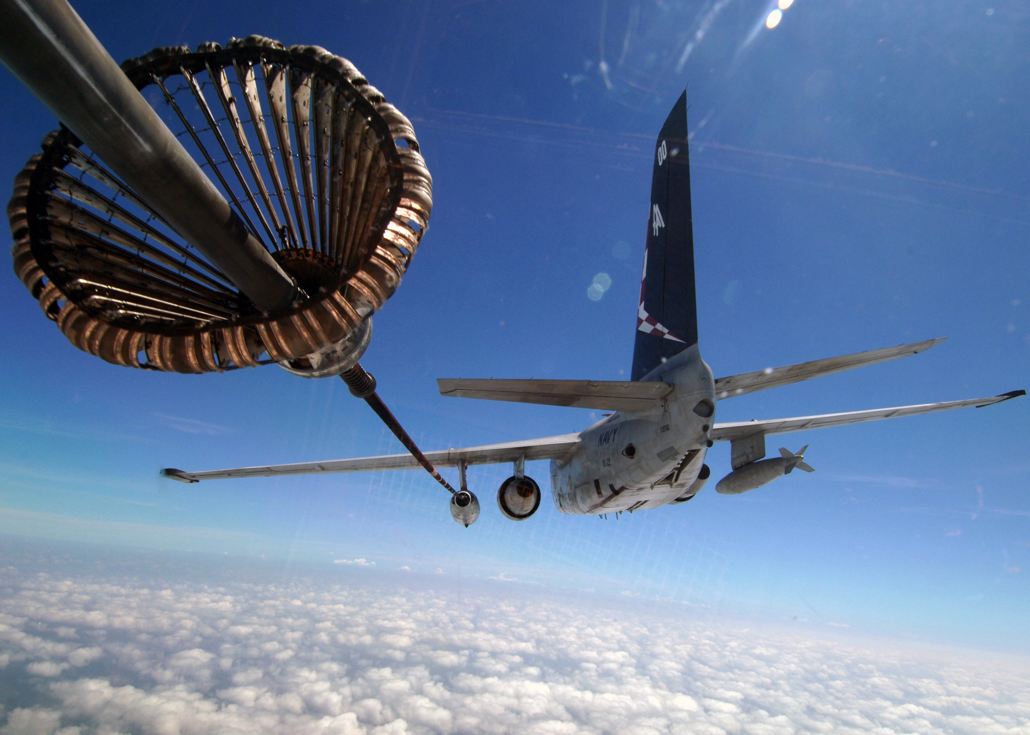 A U.S. Navy S-3 Viking aircraft refuels another S-3 Viking aircraft during routine flight operations in the Caribbean Sea May 10, 2006. George Washington Carrier Strike Group is participating in Partnership of the Americas, a maritime training and readiness deployment of the U.S. Naval Forces with Caribbean and Latin American countries in support of the U.S. Southern Command objectives for enhanced maritime security. The Vikings are assigned to the "Checkmates" of Sea Control Squadron 22.